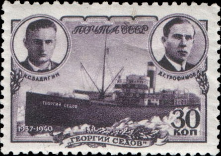 Postage stamp of the Soviet Union. Steam icebreaker Georgy Sedov, Captain K.S. Badygin and Chief Engineer D.G. Trofimov. 1940, CPA 730.